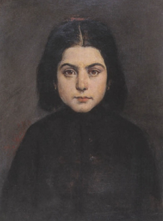 Portrait of girl